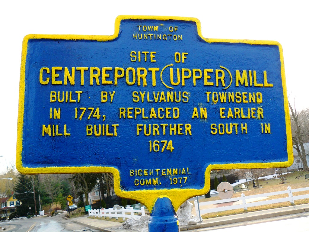 New York Bicentennial Commission historical marker in Centerport marking the Mill Dam Bridge "Site of Centreport (Upper) Mill. Built by Sylvanus Townsend in 1774, replaced an earlier mill build further south in 1674."